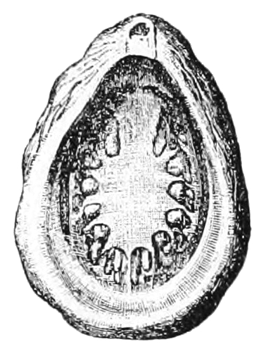 Ventral view (head region is on the upper part of the image) of the (fossil) shell of Tryblidium reticulatum Lindström, 1880 from Upper Silur of Gotland (Sweden).